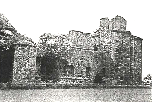 Melgund Castle before restoration